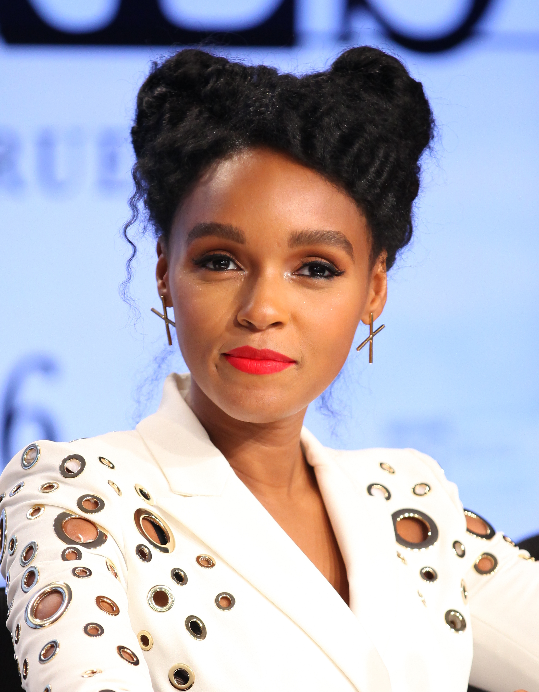 In the Press Site auditorium at the Kennedy Space Center in Florida, Janelle Monáe, speaks to members of the media during a news conference with other key individuals involved in the upcoming motion picture "Hidden Figures." The movie is based on the book of the same title, by Margot Lee Shetterly. It chronicles the lives of Katherine Johnson, Dorothy Vaughan and Mary Jackson (portrayed by Monáe), three African-American women who worked for NASA as human "computers.” Their mathematical calculations were crucial to the success of Project Mercury missions including John Glenn’s orbital flight aboard Friendship 7 in 1962. The film is due in theaters in January 2017. Photo credit: NASA/Kim Shiflett NASA image use policy.